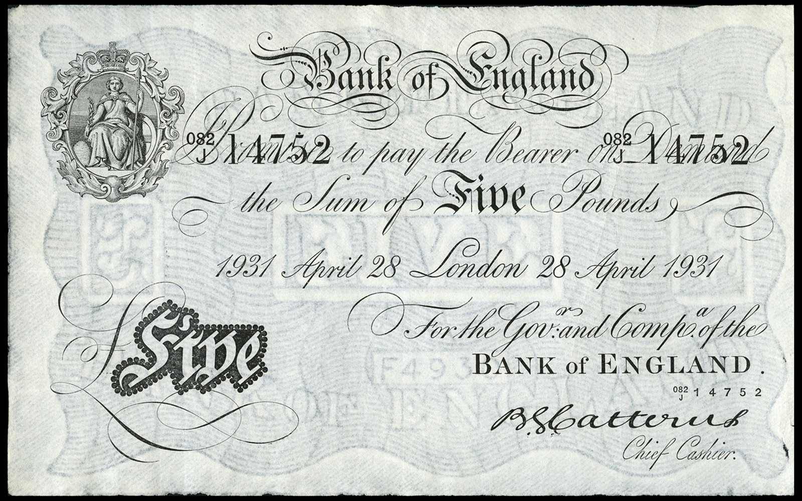 The Bank of England, B.G. Catterns, Five Pounds, 28 April 1931, 082/J 14752